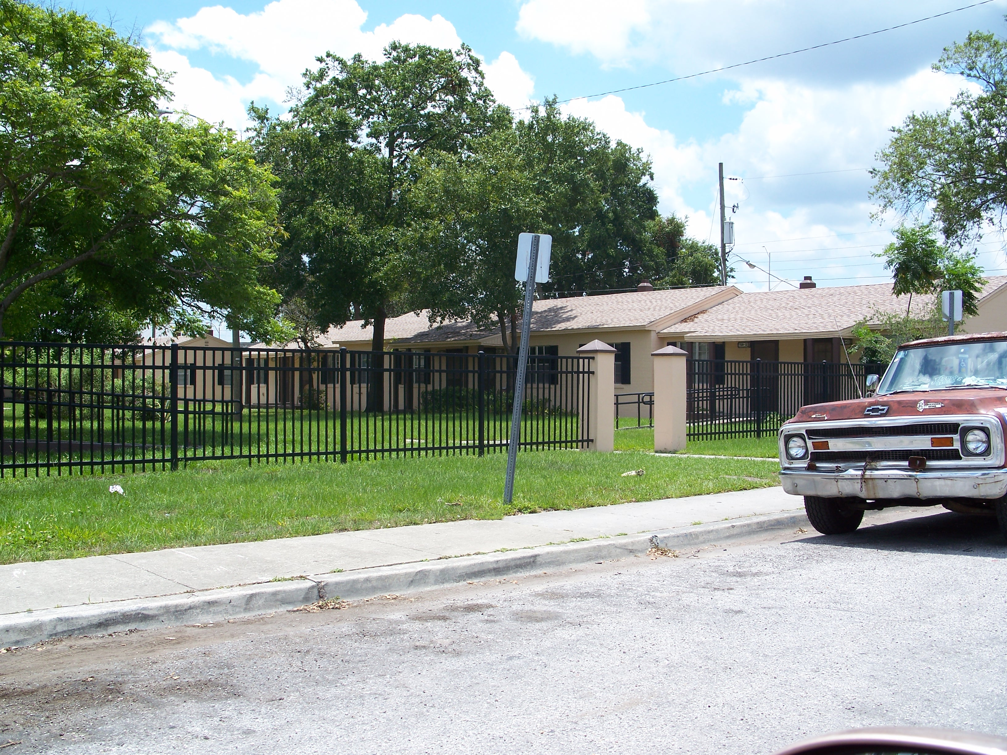 Building in the Griffin Park Historic District, in Orlando, Florida